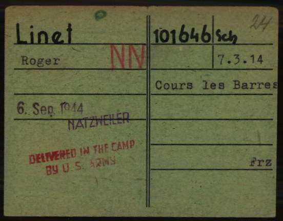 Registration card of Roger Linet as a prisoner at Dachau Nazi Concentration Camp. Red “NN” identifies a prisoner under “Nacht und Nebel” directive. Red stamp means he was liberated from Dachau by the U. S. Army.